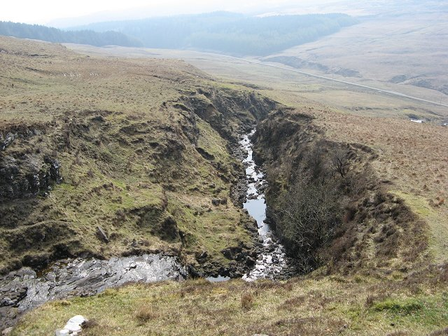 Allt Chreaga Dubha Ravine along the line of a dyke made of less resistant rock than the basalt flows. This softer rock has been eroded and gives a typical deep straight channel.